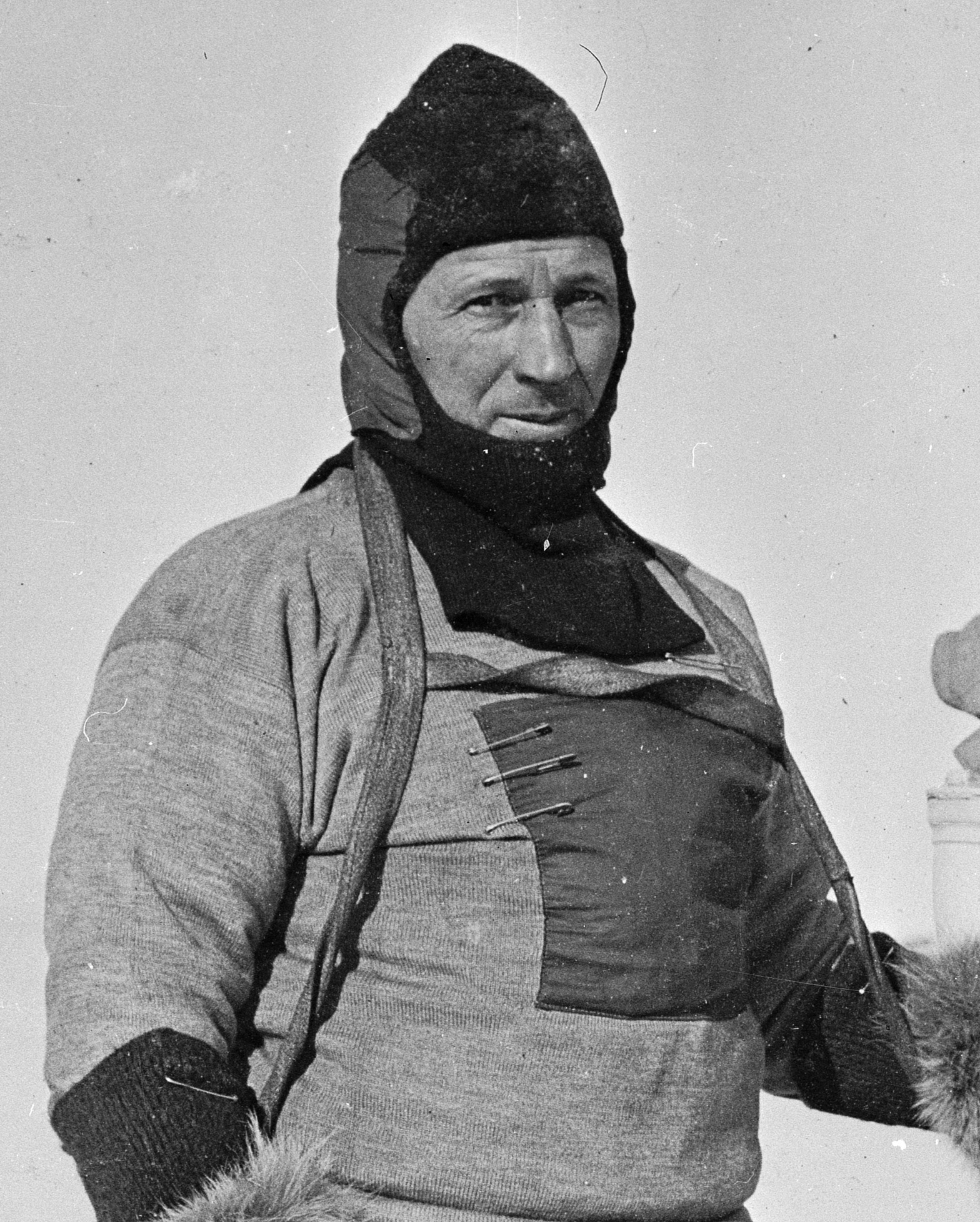 William Lashly standing by a Wolseley motor sleigh during the British Antarctic Expedition of 1911-1913, November 1911 Photographer: Herbert Ponting Reference Number: PA1-f-067-086-4 Silver gelatin print Photographic Archive, Alexander Turnbull Library Find out more about this image from the Alexander Turnbull Library.